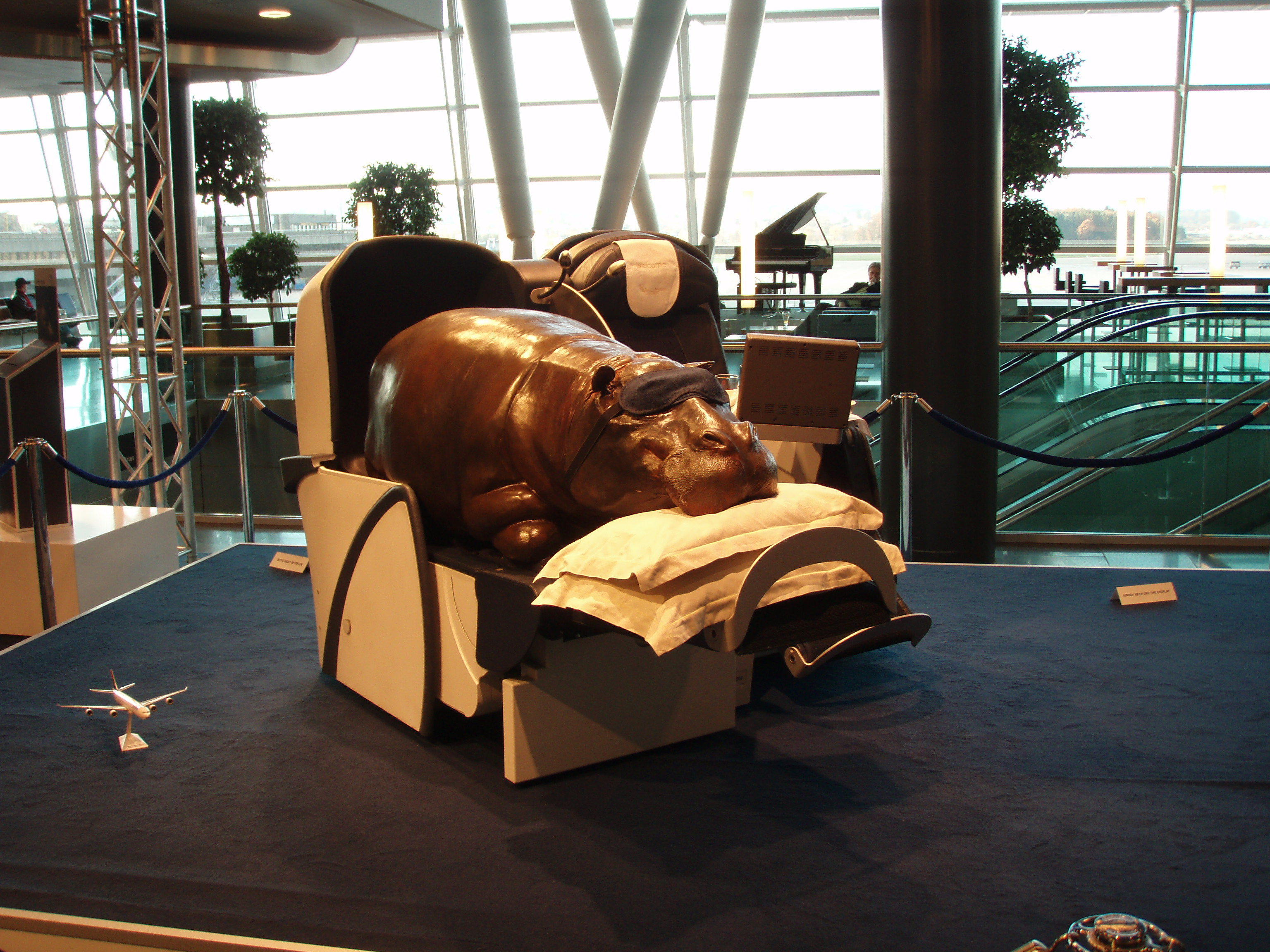 Display of South African Airways "new" Business Class product at Zurich Kloten airport